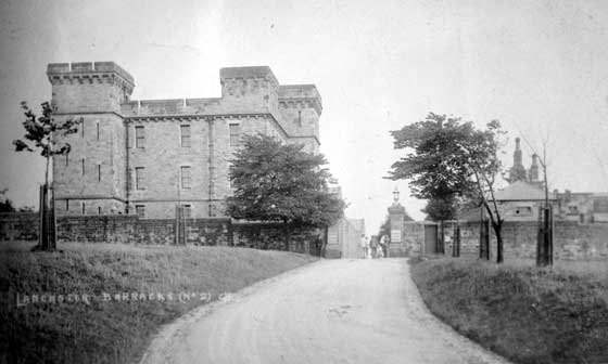 Old postcard of Bowerham Barracks